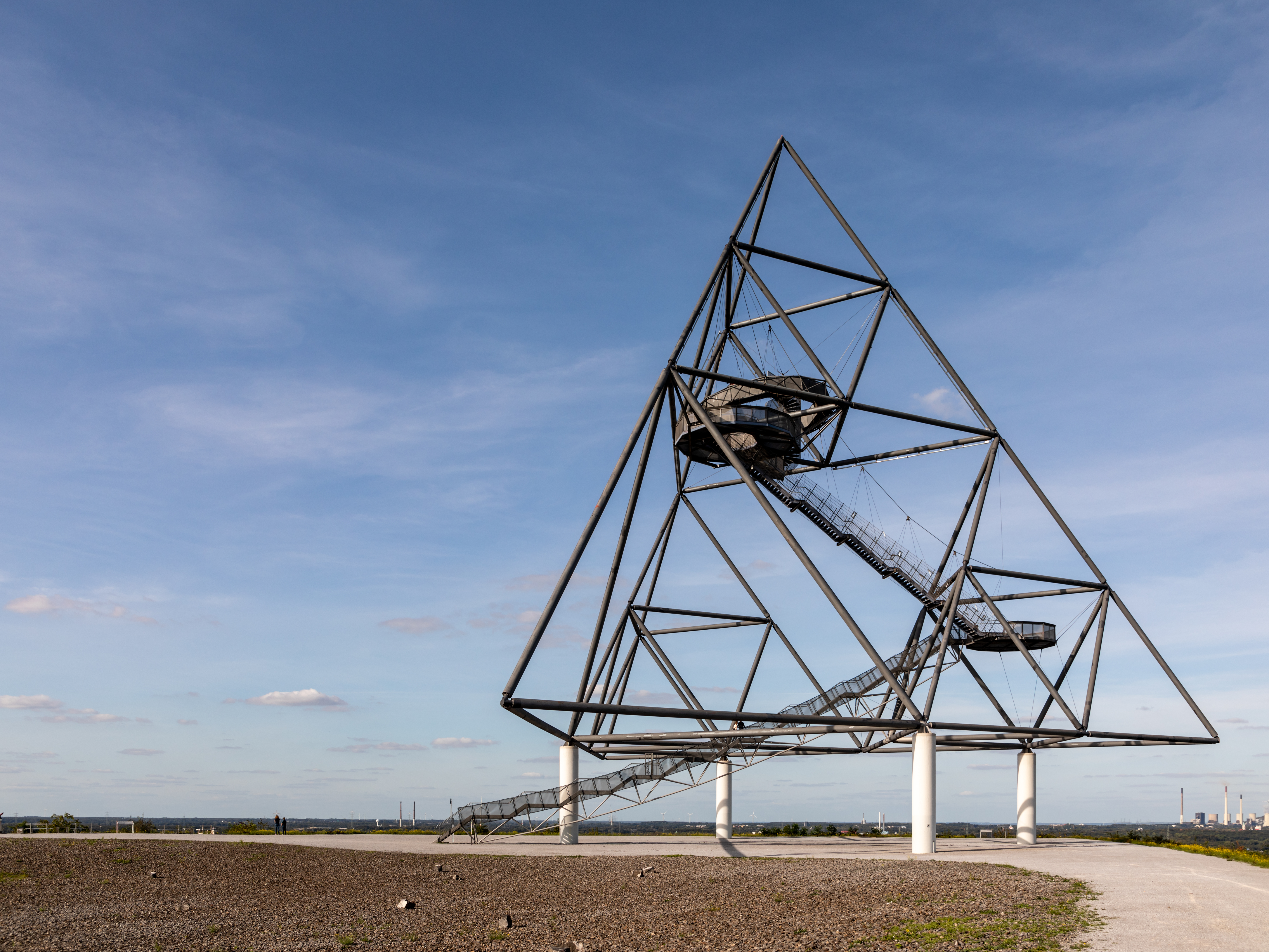 Tetrahedron in Bottrop, North Rhine-Westphalia, Germany Sculpture TitleHaldenereignis EmscherblickArtistWolfgang ChristDate3 October 1995